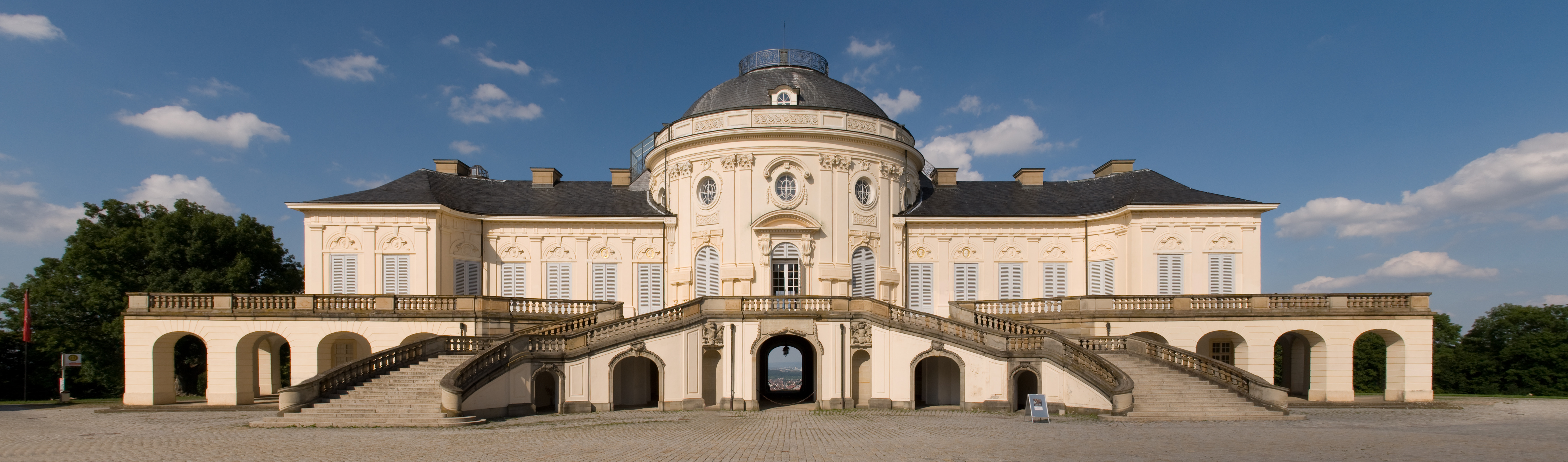 Solitude Castle, Stuttgart, Germany